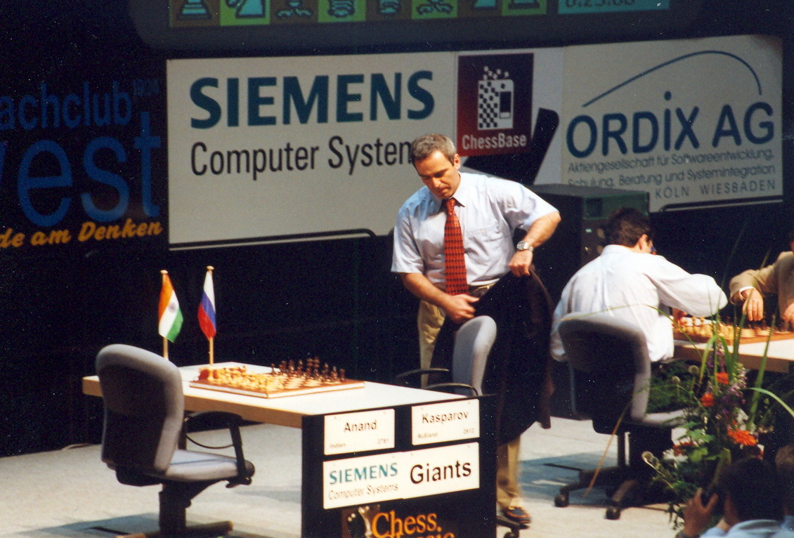 Garry Kasparow, 1999 Chess Classics